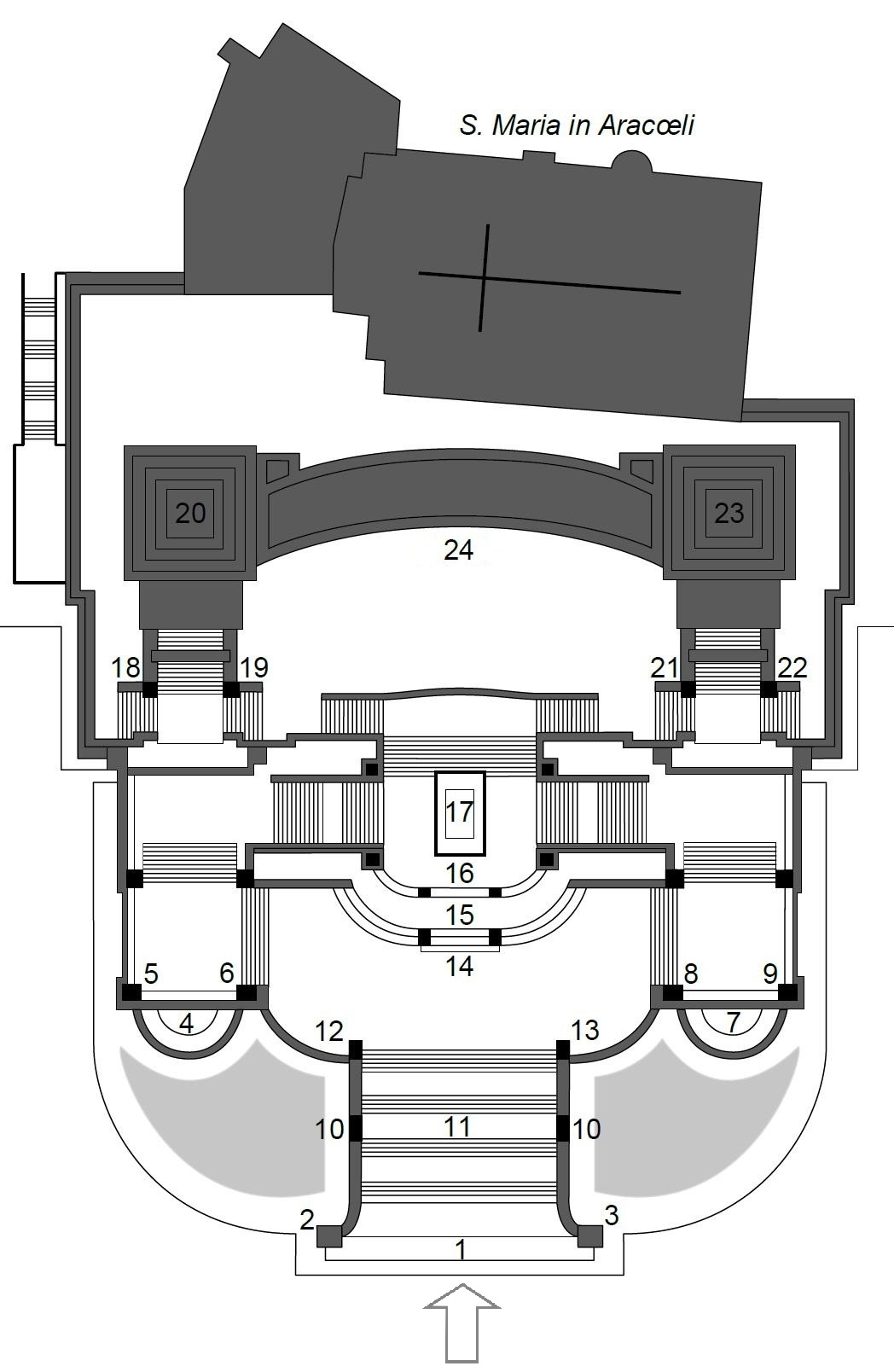 Map of the Monument to Vittorio Emanuele II